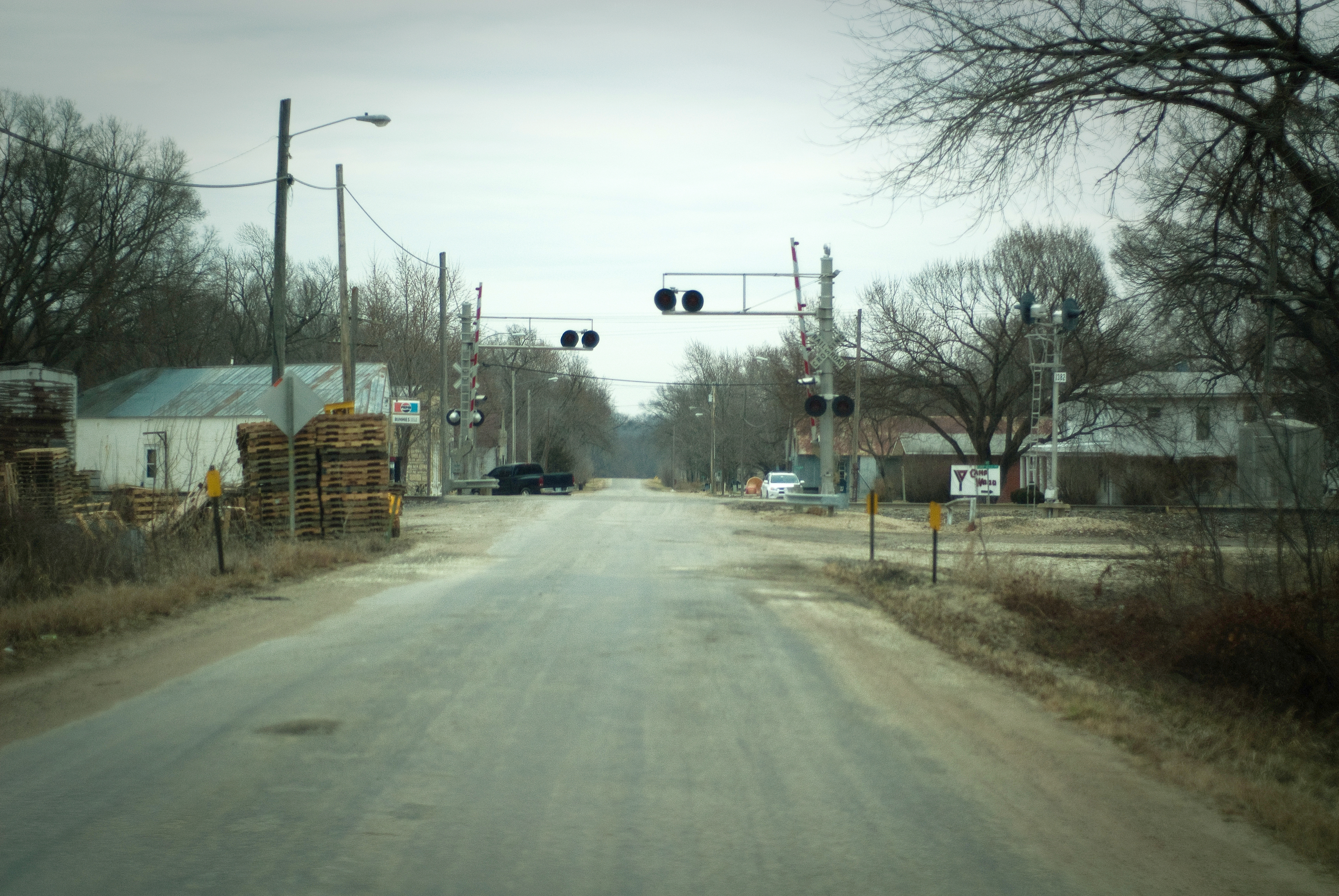 Elmdale is a 4 four block ghost town in the middle of Kansas. About 20 percent of the houses seem to be inhabited. The rest seem to be haunted. In the next town over, Cottonwood Falls, we overheard someone say that they were looking for a new priest in Elmdale. We didn't stick around long enough to find out what happened to the old priest. We also didn't spend a lot of time taking photos, since the zombies were on our tail and we were headed for Diamond Springs.